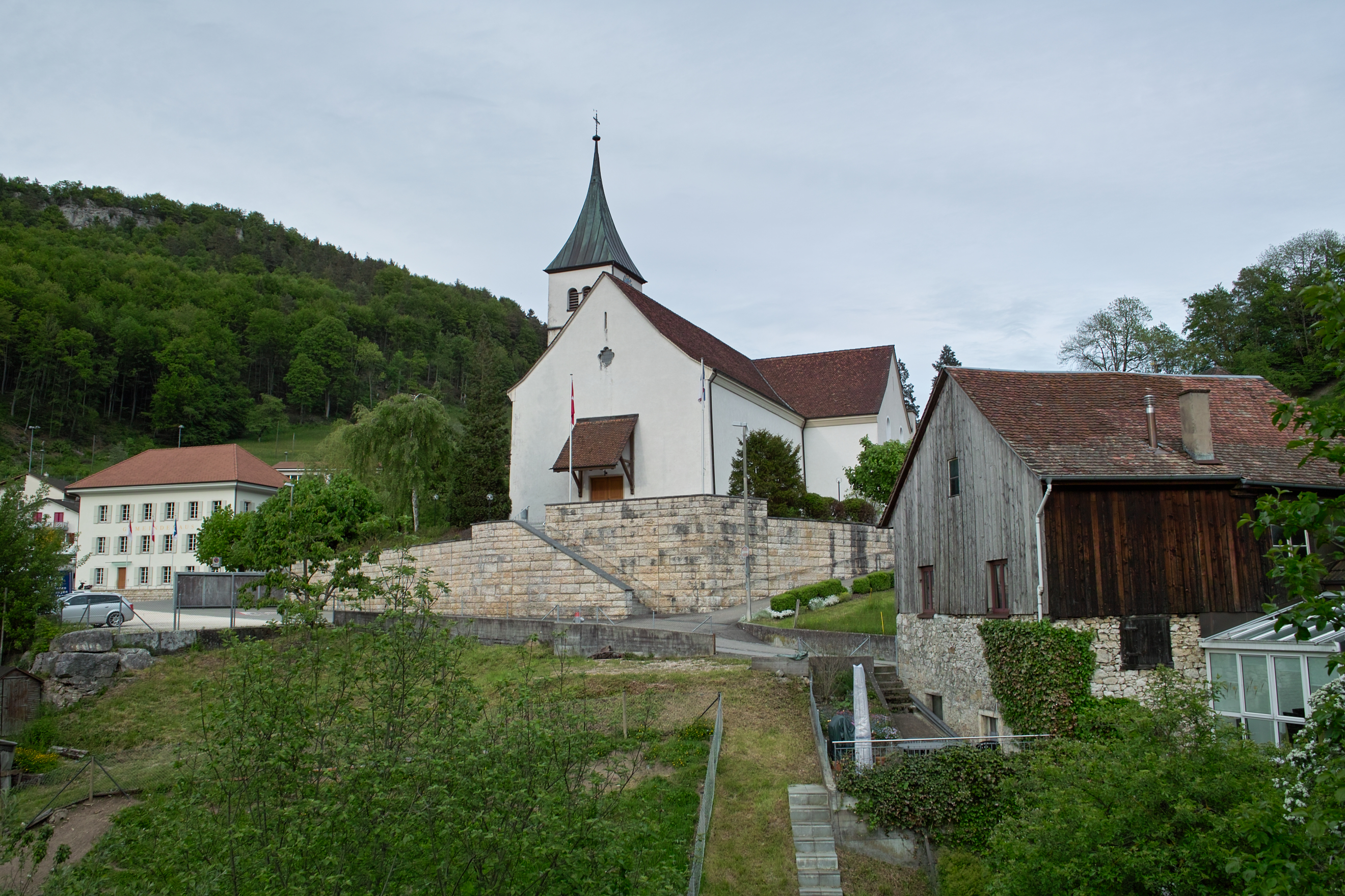 Church of Bärschwil, canton of Solothurn, Switzerland.